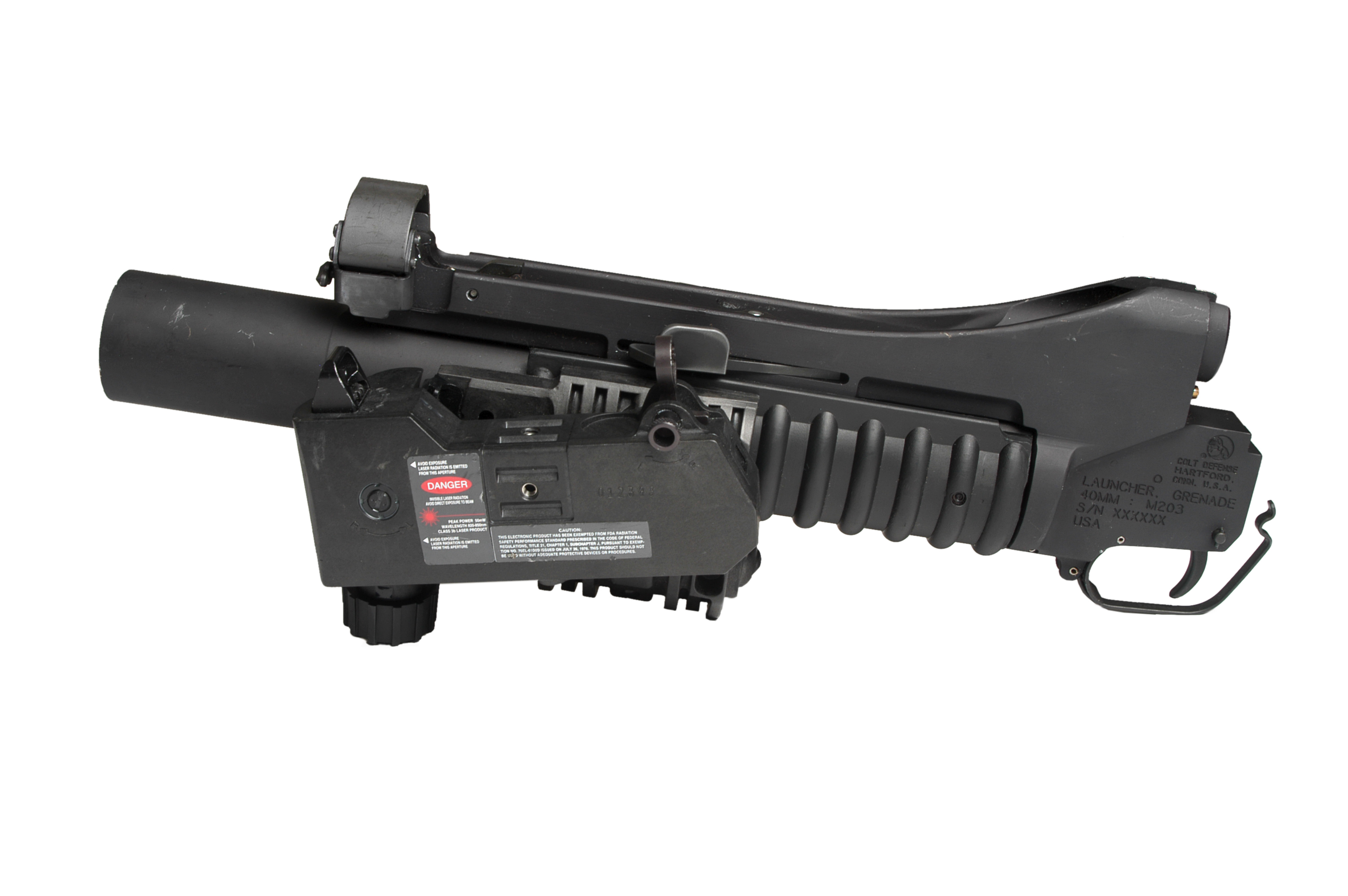 The M203A2 Grenade Launcher can be mounted under the M16A4 Rifle or M4 Carbine, giving the Soldier a grenade capability that bridges the gap between the hand grenade and mortar.